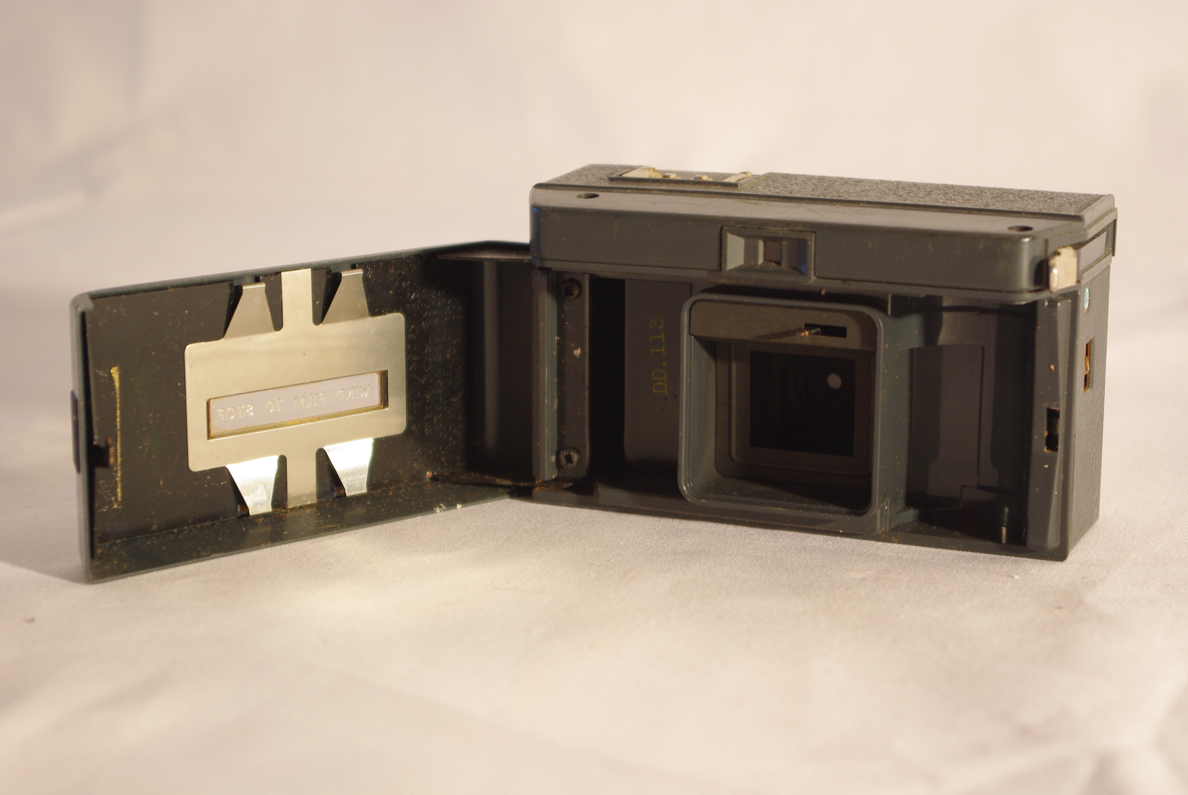 Instamatic 50 with opened back